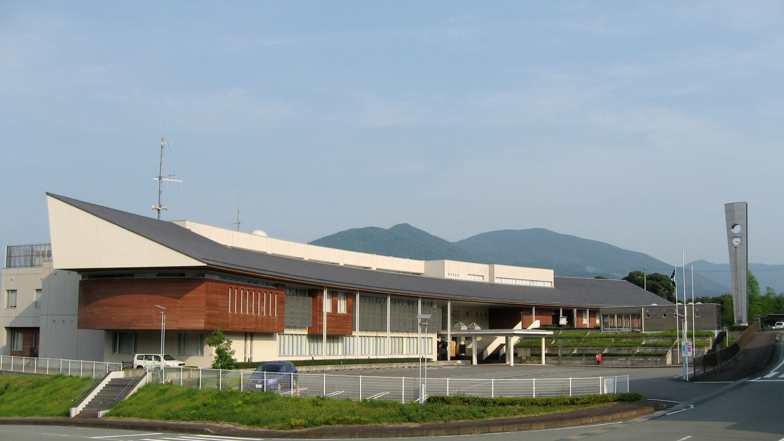 Watarai townhall I took this image at Tanahashi Watarai-town Watarai Mie Pref., Japan.